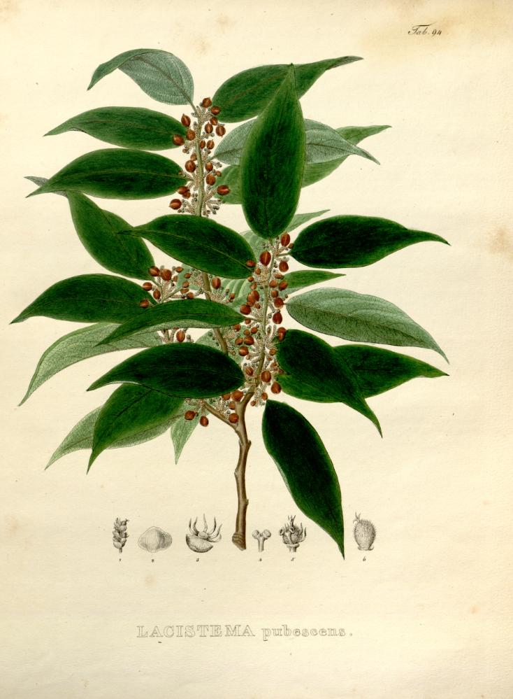 Illustration of Lacistema pubescens